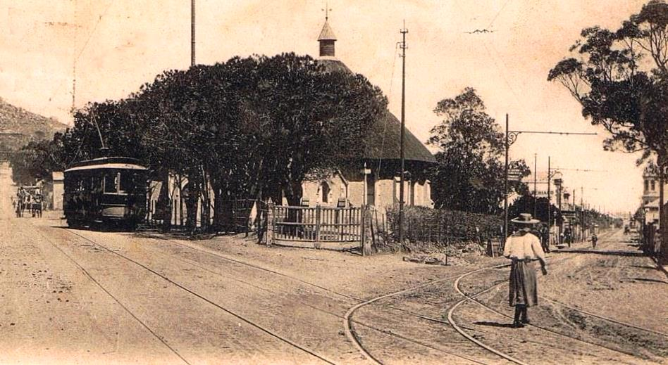 The old Round Church - known as Saul Solomons Temple - Sea Point intersection of Main Kloof and Regent road. 1906.